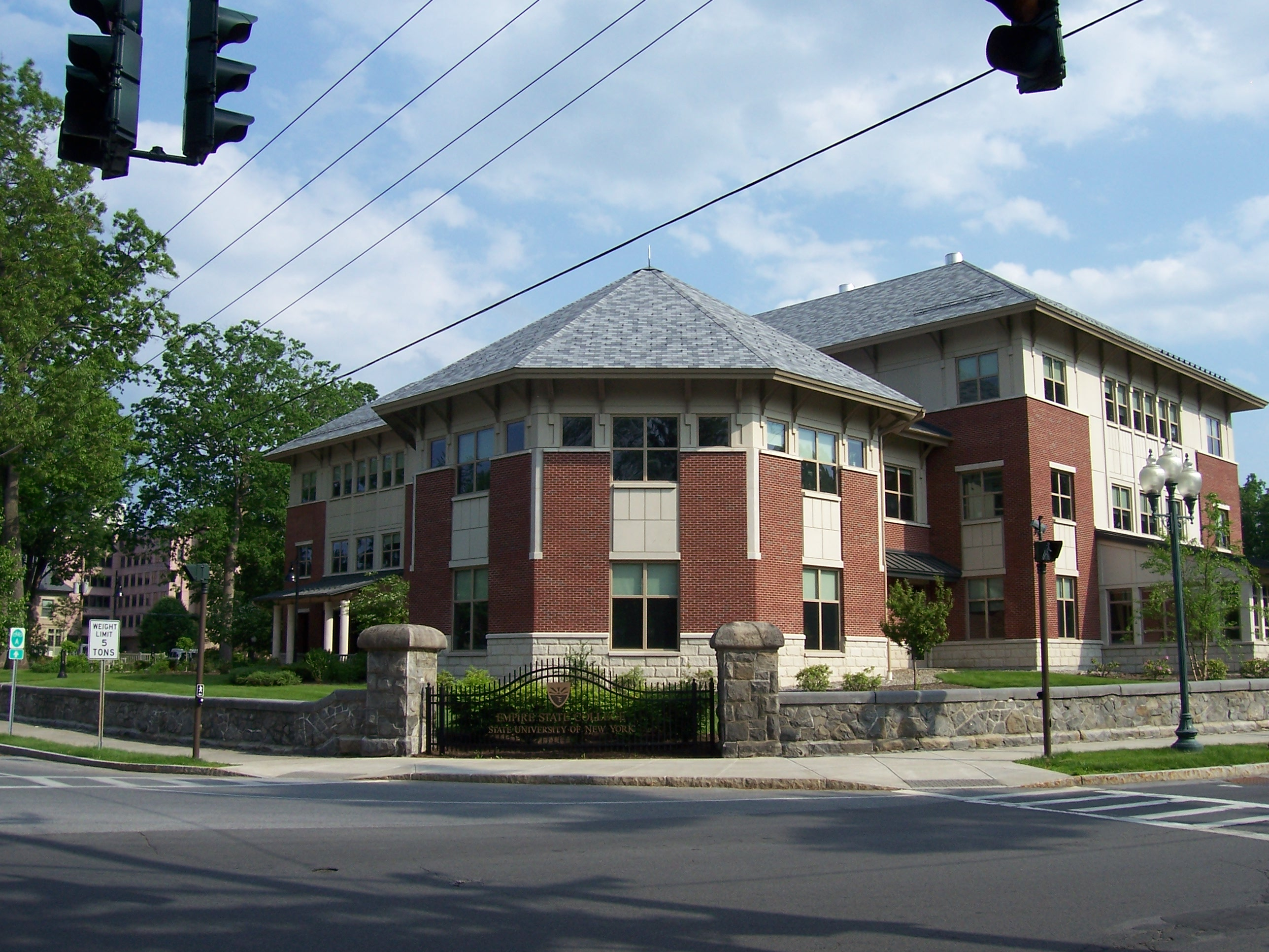 Empire State College coordinating center at Saratoga Springs, New York